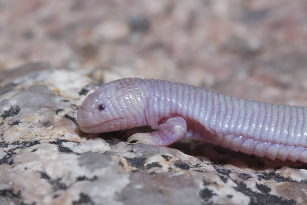 Mexican mole lizard (Bipes biporus), also called Five-toed worm lizard. Captive animal, courtesy of El Serpentario, La Paz, Baja California Sur, Mexico. – This strange little lizard-like reptile has only two, clawed legs, very far forward on its worm-like body. It burrows in porous soils and is endemic to Baja. Rather than being a true lizard, it belongs to the small suborder Amphisbaenia, which is closely related to lizards and snakes.